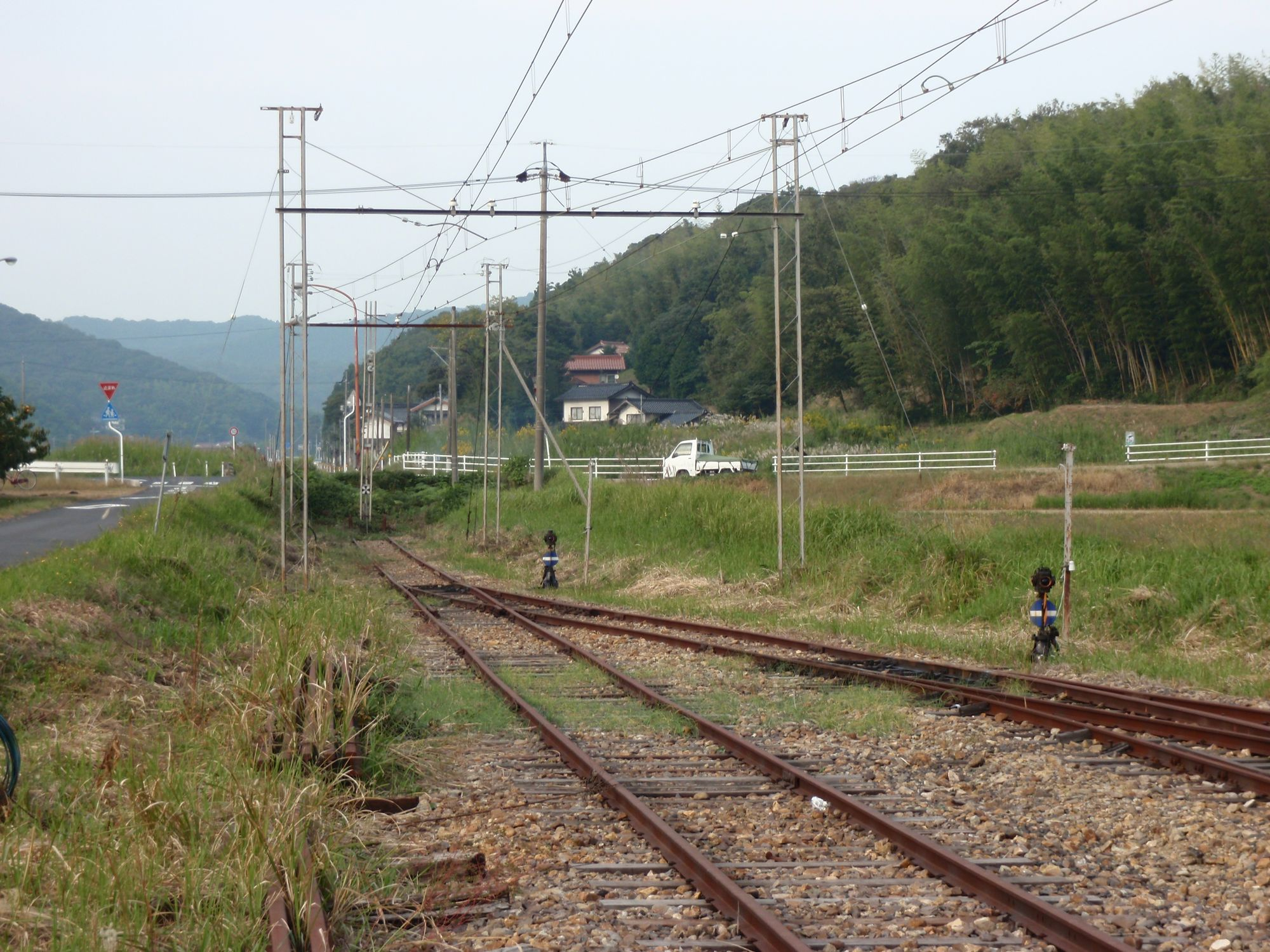 End of the track at Ichibataguchi Station